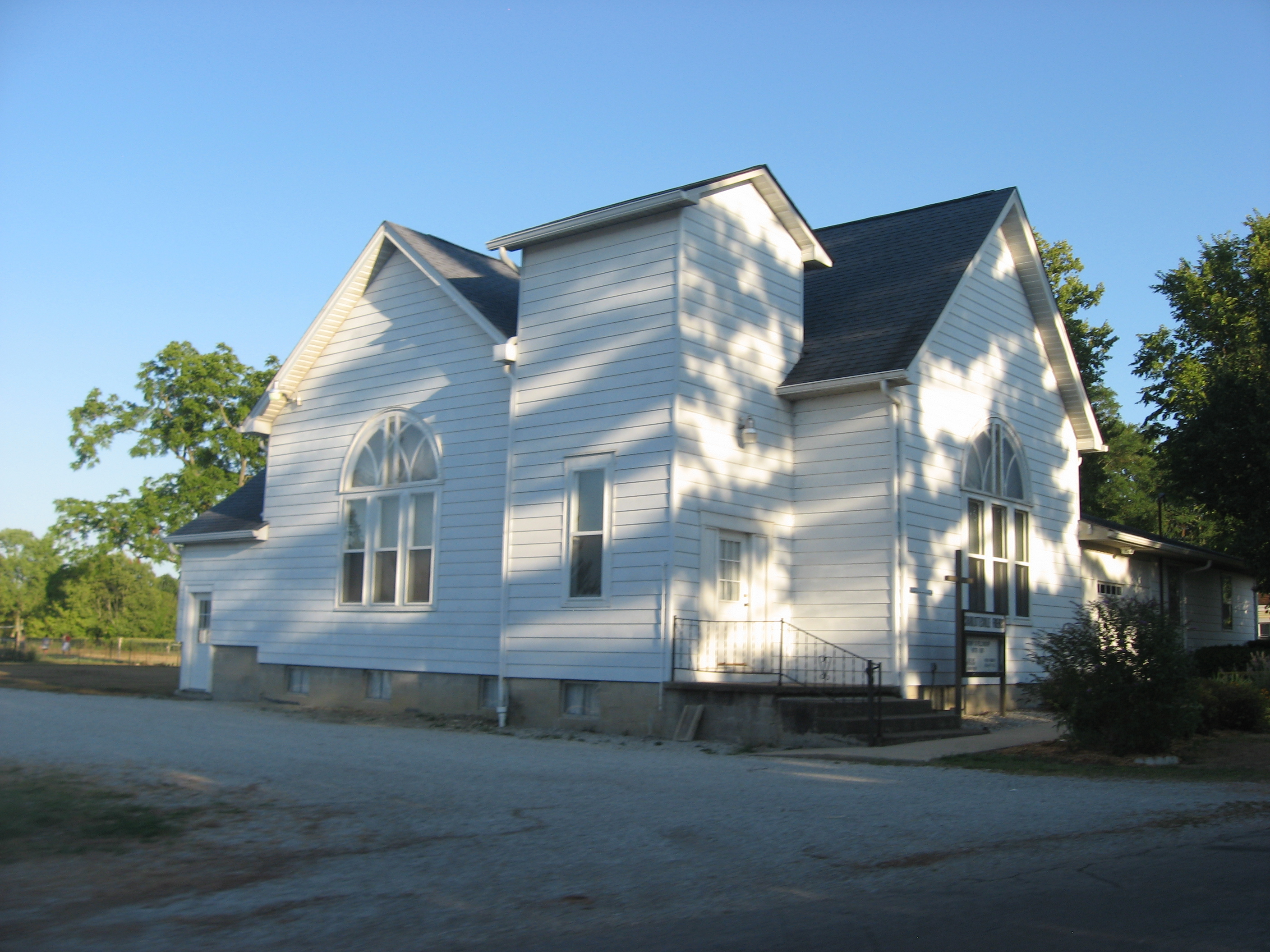 Front of the Charlottesville Friends Church, located on the southeastern corner of the junction of N900W and W1200N at Charlottesville in Ripley Township, Rush County, Indiana, United States. It was built in 1890.